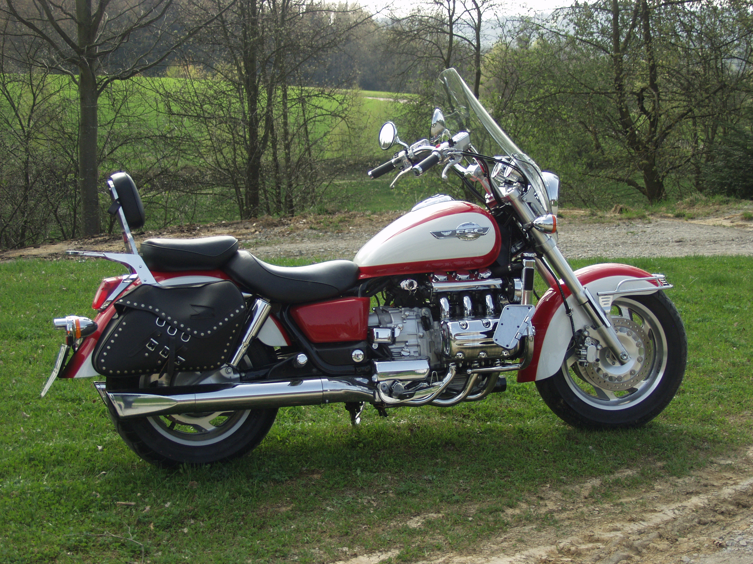 Honda motorbike F6C Tourer (Valkyrie Tourer) in two-tone color combination Pearl Red/Pearl Ivory